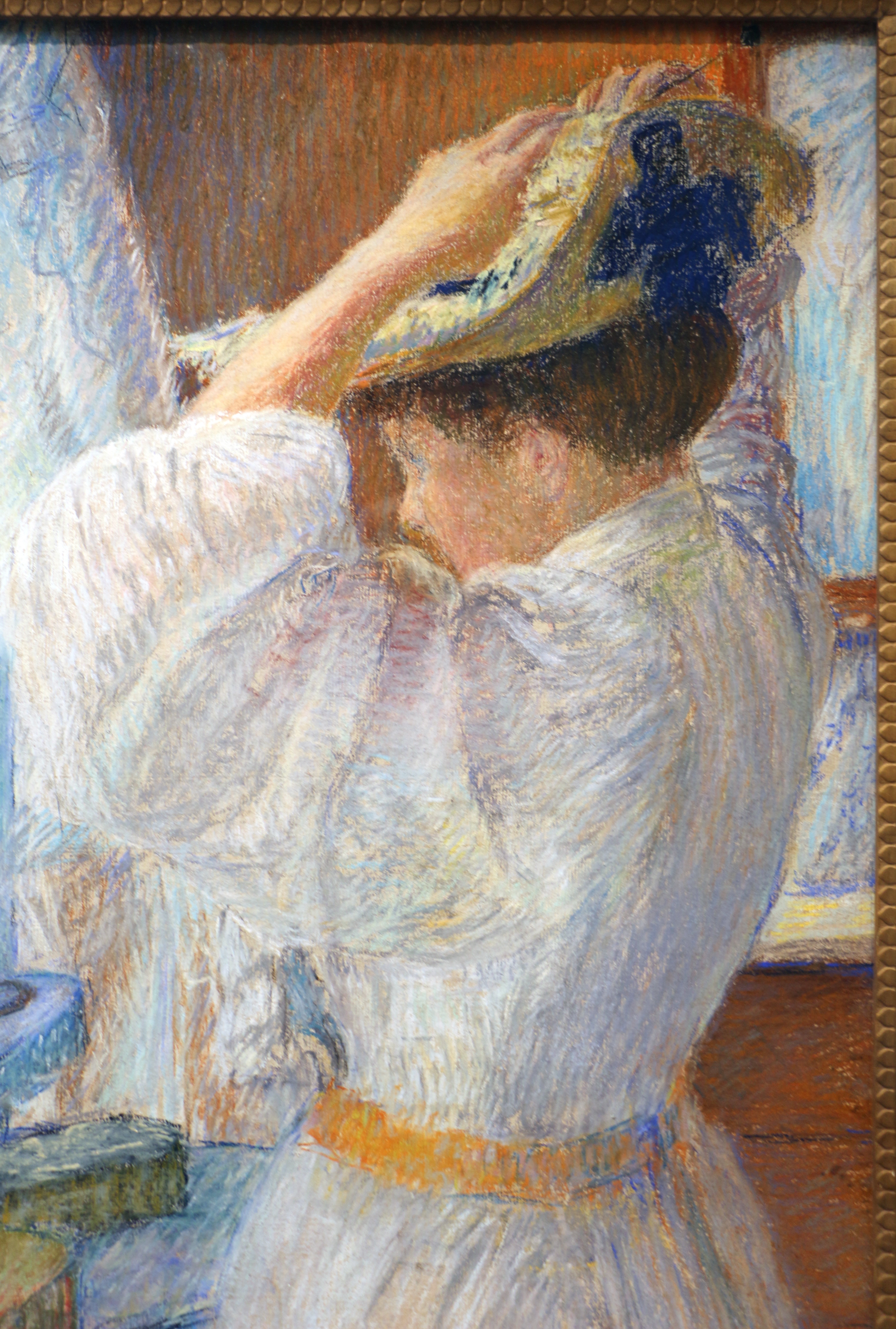 Museum of Ixelles